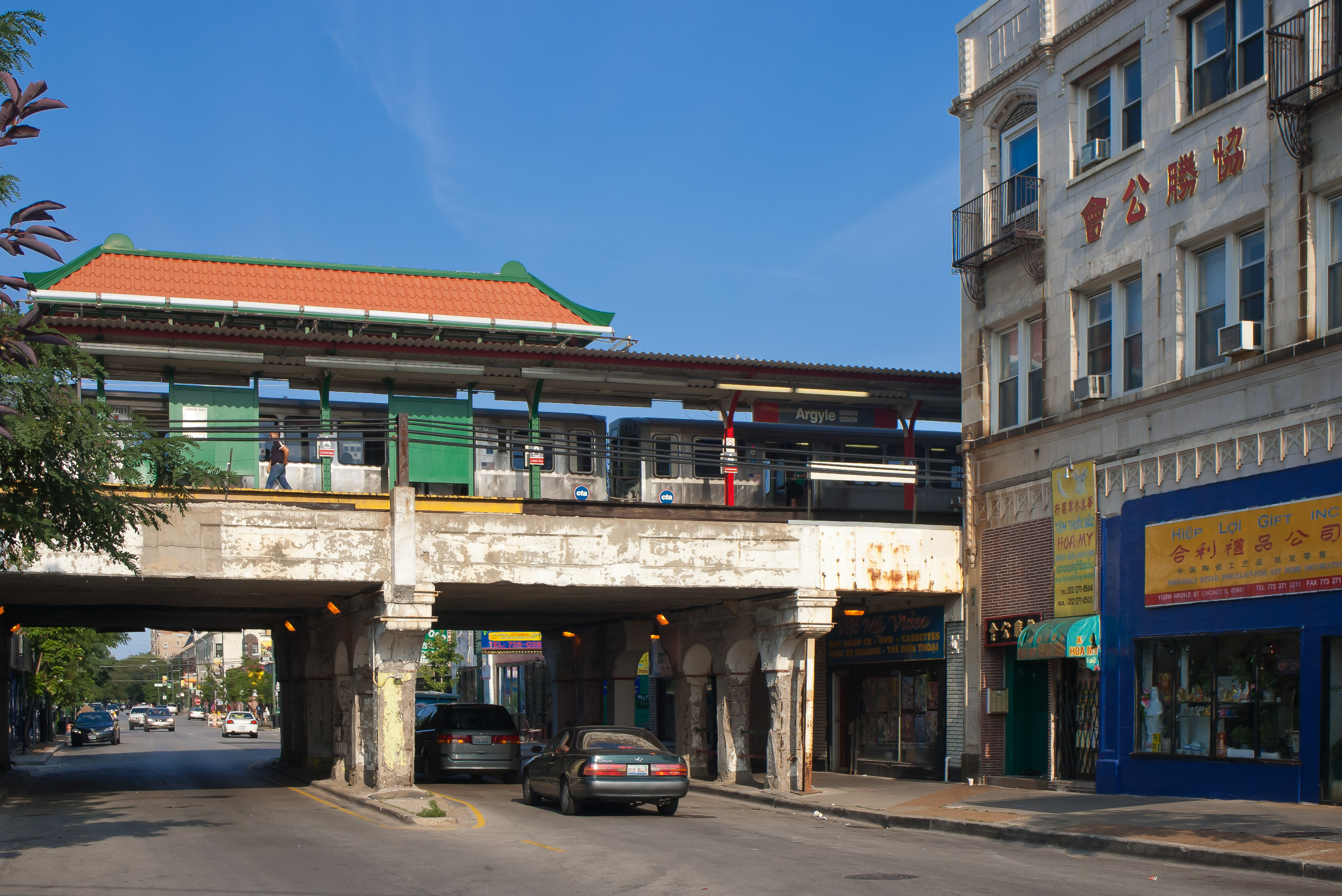 Argyle 'L' station on the Chicago Transit Authority's Red Line in the West Argyle Street Historic District of Chicago, Illinois